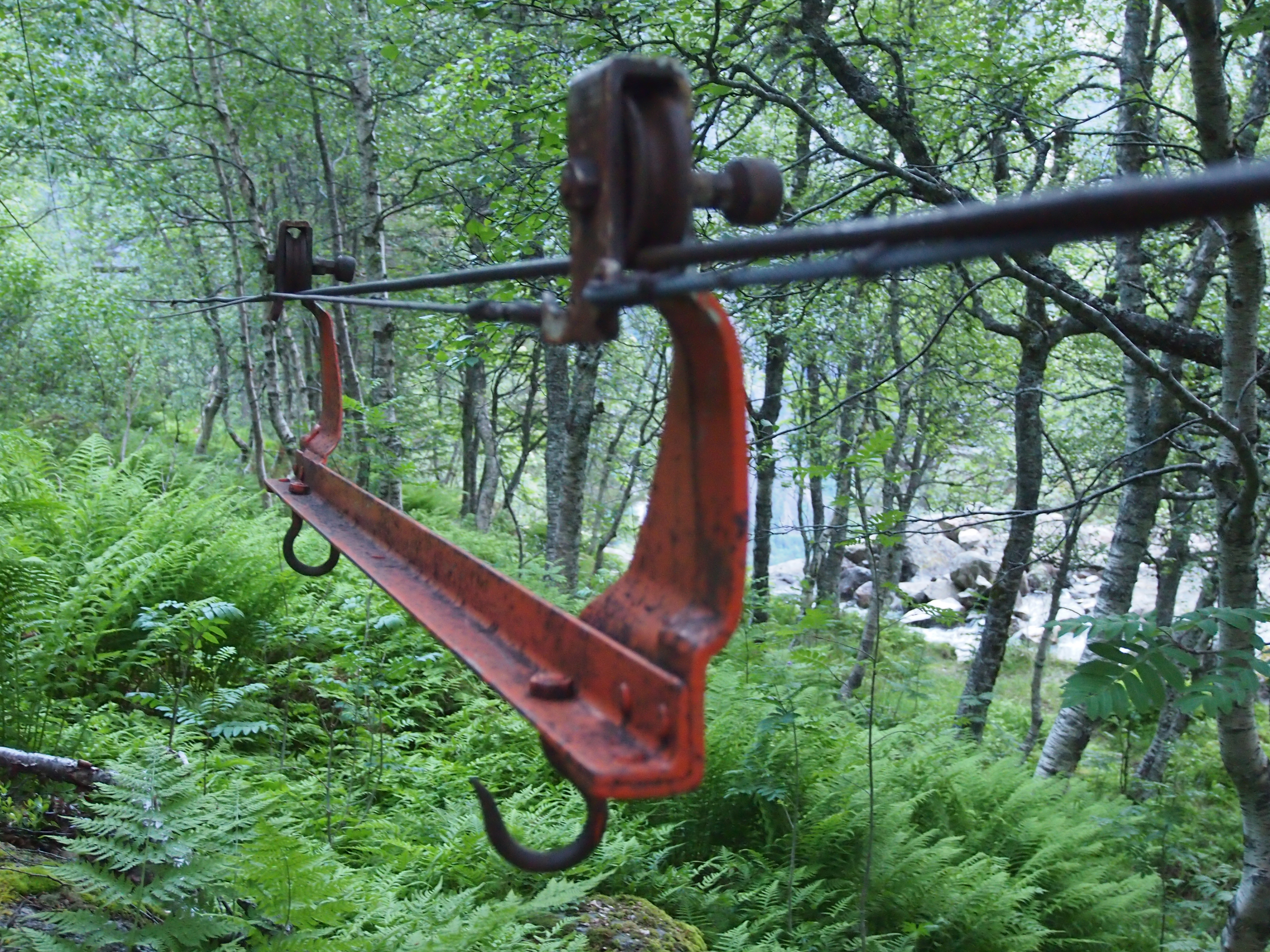 Zip wire from Kjeåsen in Eidfjord, Hardanger, Norway.